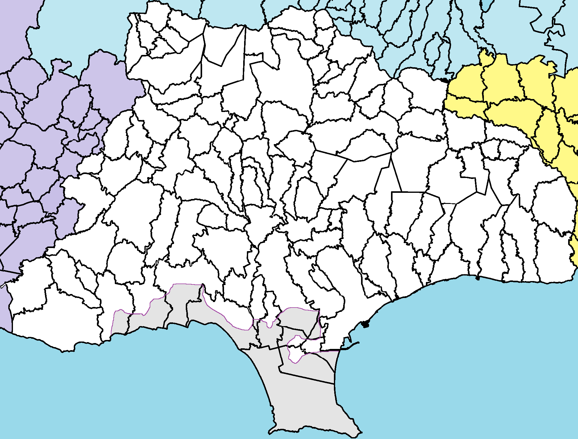 Limassol District.